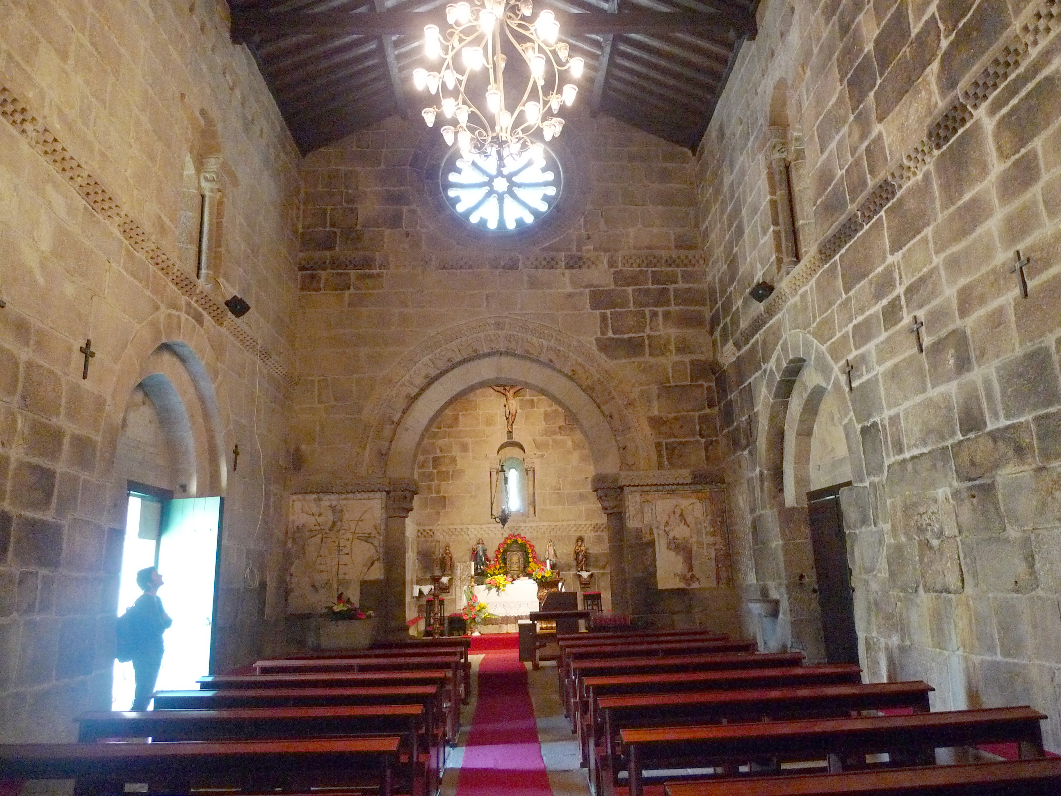 Portugal, Bravaes, Igreja de Sao Salvador, Interior